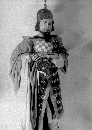 Elesger Elekberov as Macduff